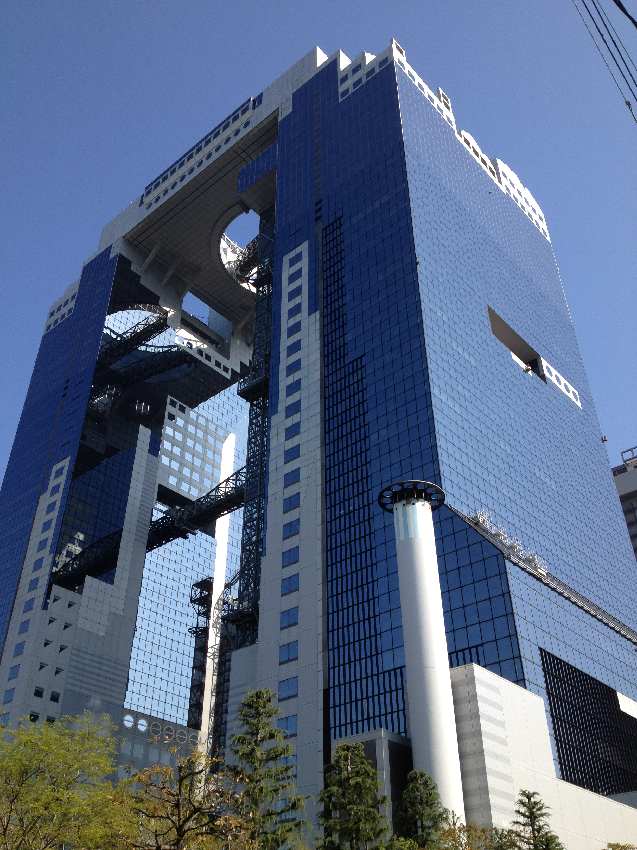 "Umeda Sky Building" in Osaka, Japan.